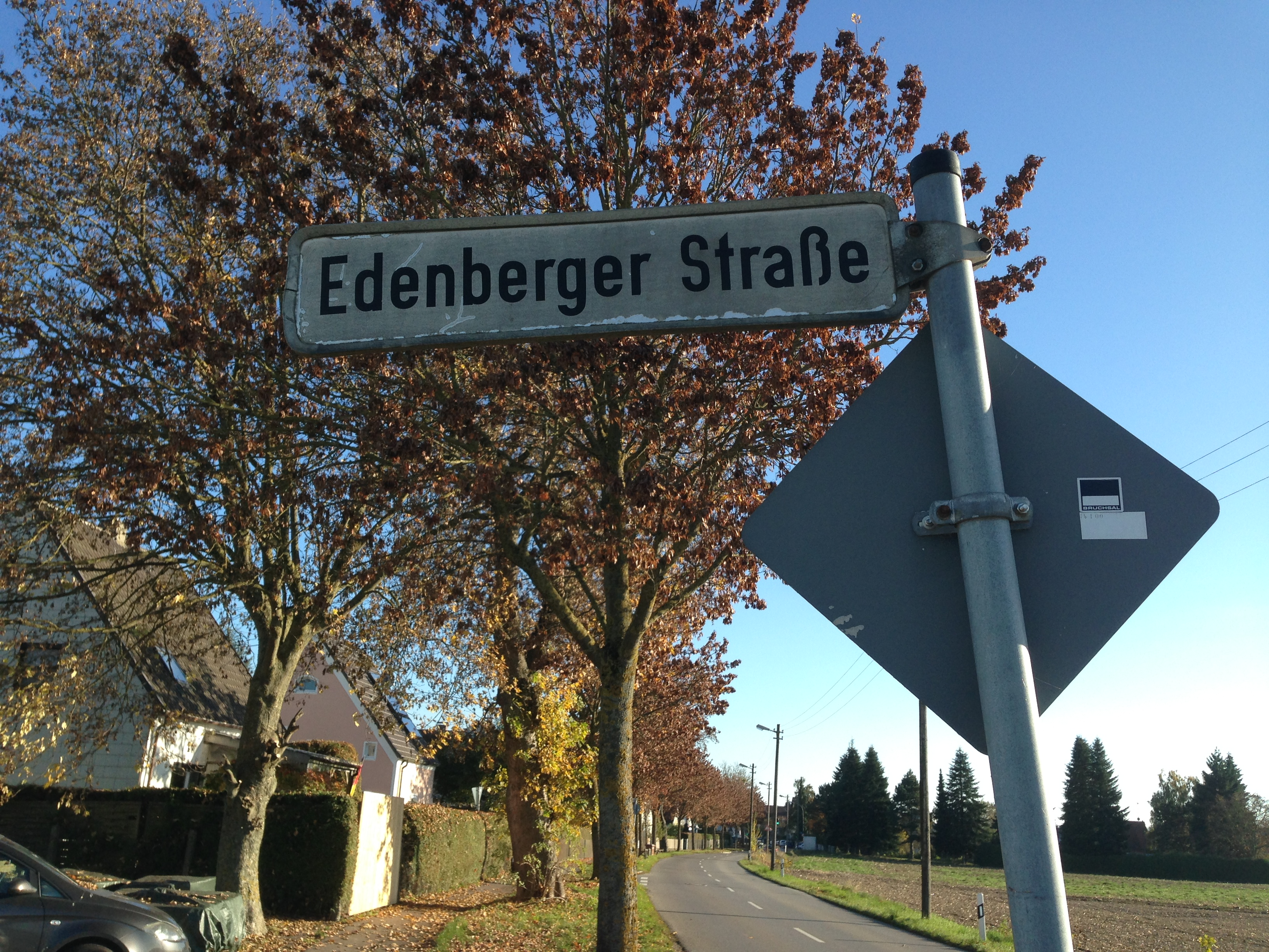 Street sign of "Edenberger Strasse" in Augsburg, Germany